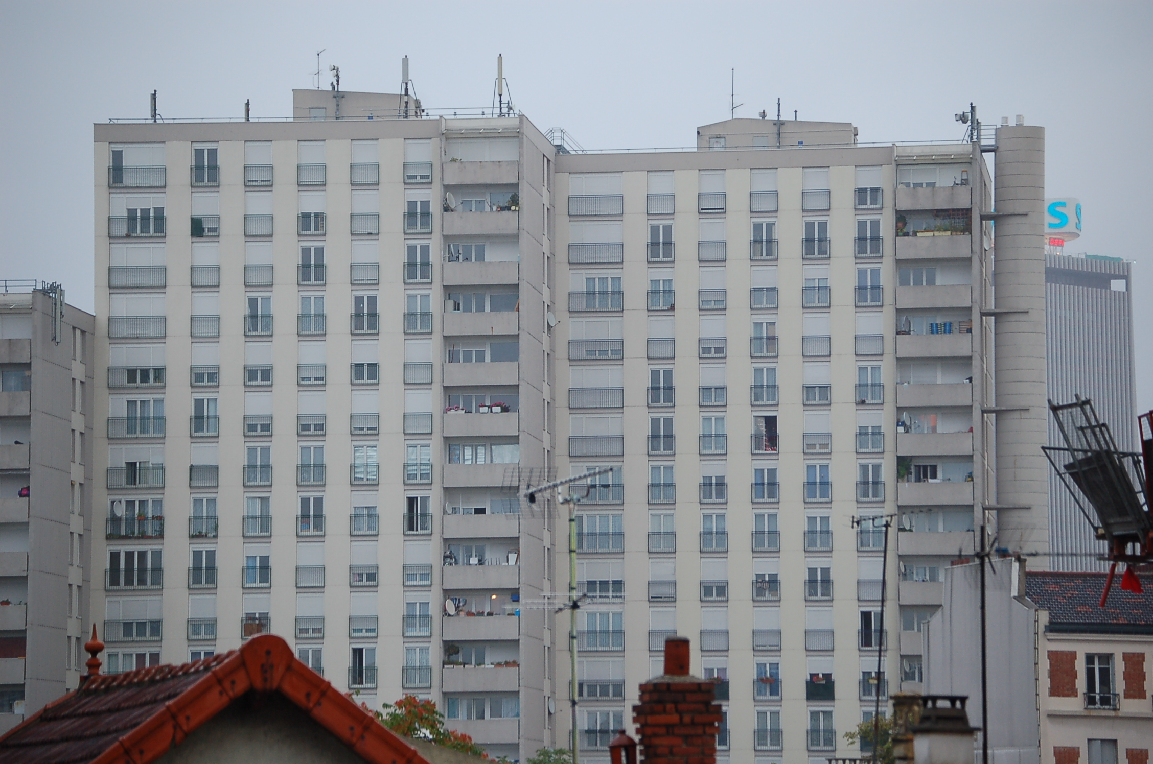 Housing estate in Saint-Denis, Seine-Saint-Denis (France).